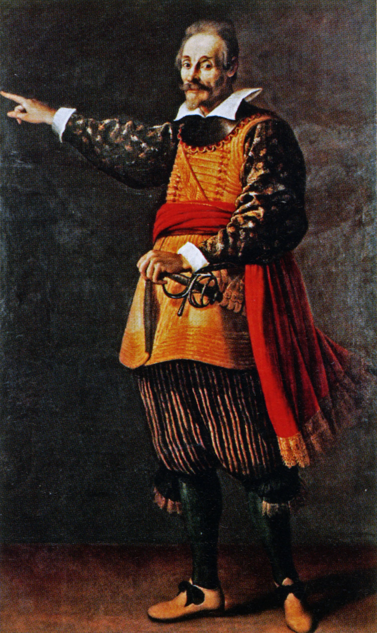 Portrait painting of the Italian commedia dell'arte actor Francesco Andreini in the costume of Capitano